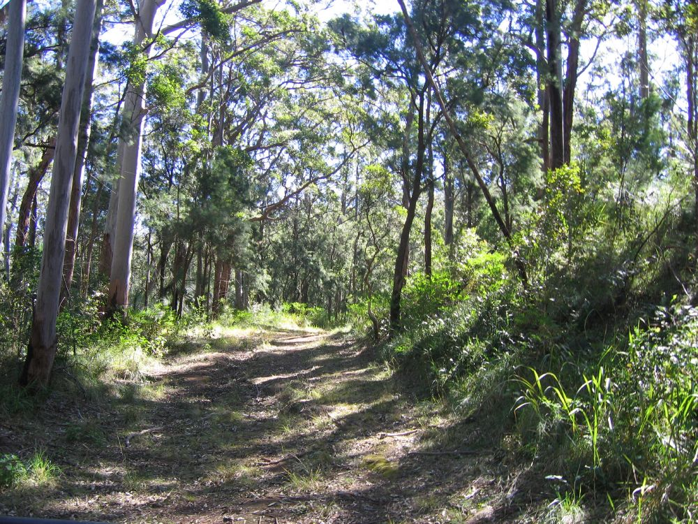 Spicers Gap Road Conservation Park (2009)